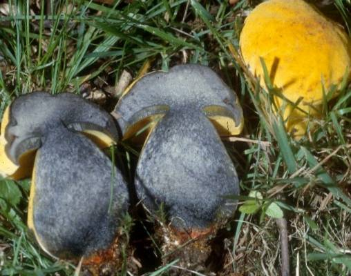 Fruit bodies of the bolete mushroom Boletus pseudosulphureus Kallenb. Photographed in Thompson Park, East Liverpool, Ohio, USA.